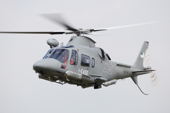 BD navy AW109-Power-Agusta-Westland